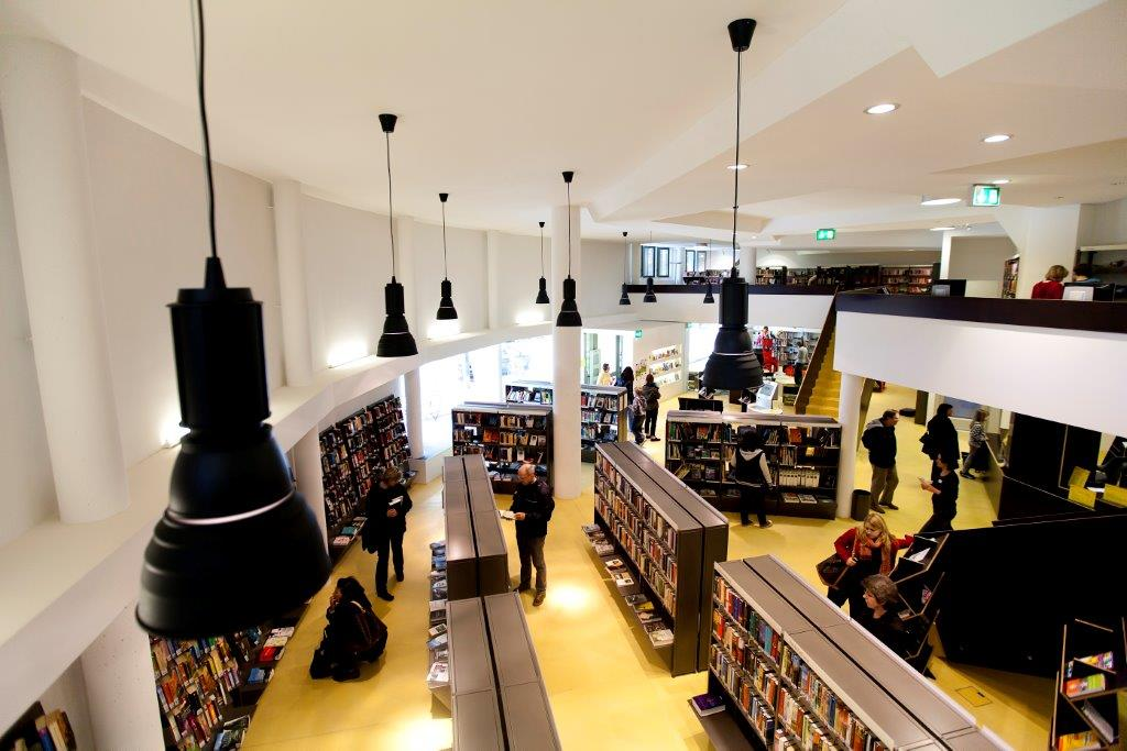 GGG City Library of Basel, Library Basel West, interior view